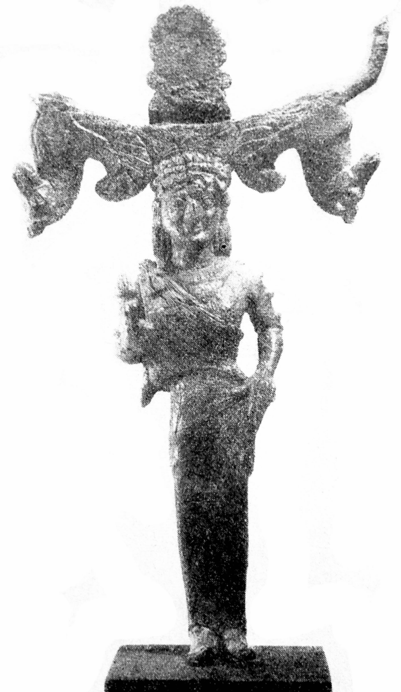 Photograph